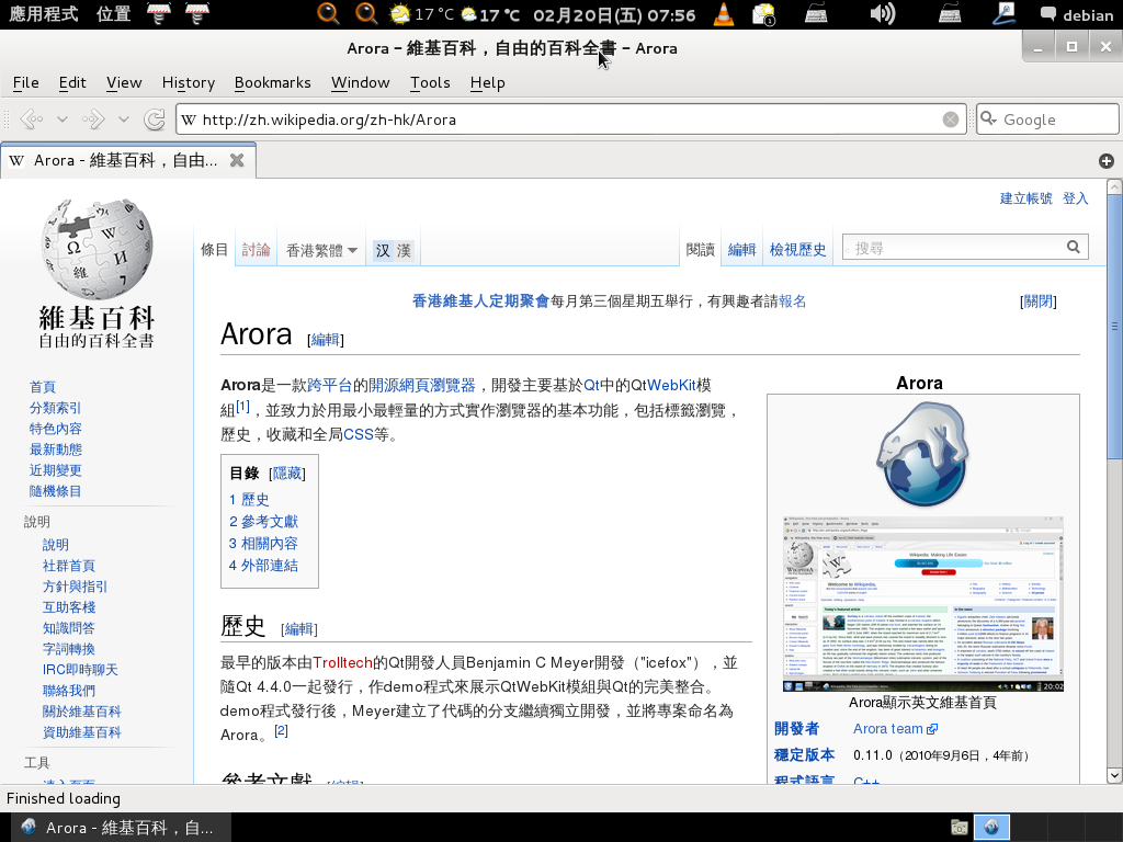 screenshot of Arora, a free and open-source web browser version 0.11.0 on Gnome 3.4.2 on Debian 7.3中文（香港）: 開放源代碼的網絡瀏覽器Arora 0.11.0運行在Gnome 3.4.2桌面環境及Debian 7.3 (wheezy) amd64上